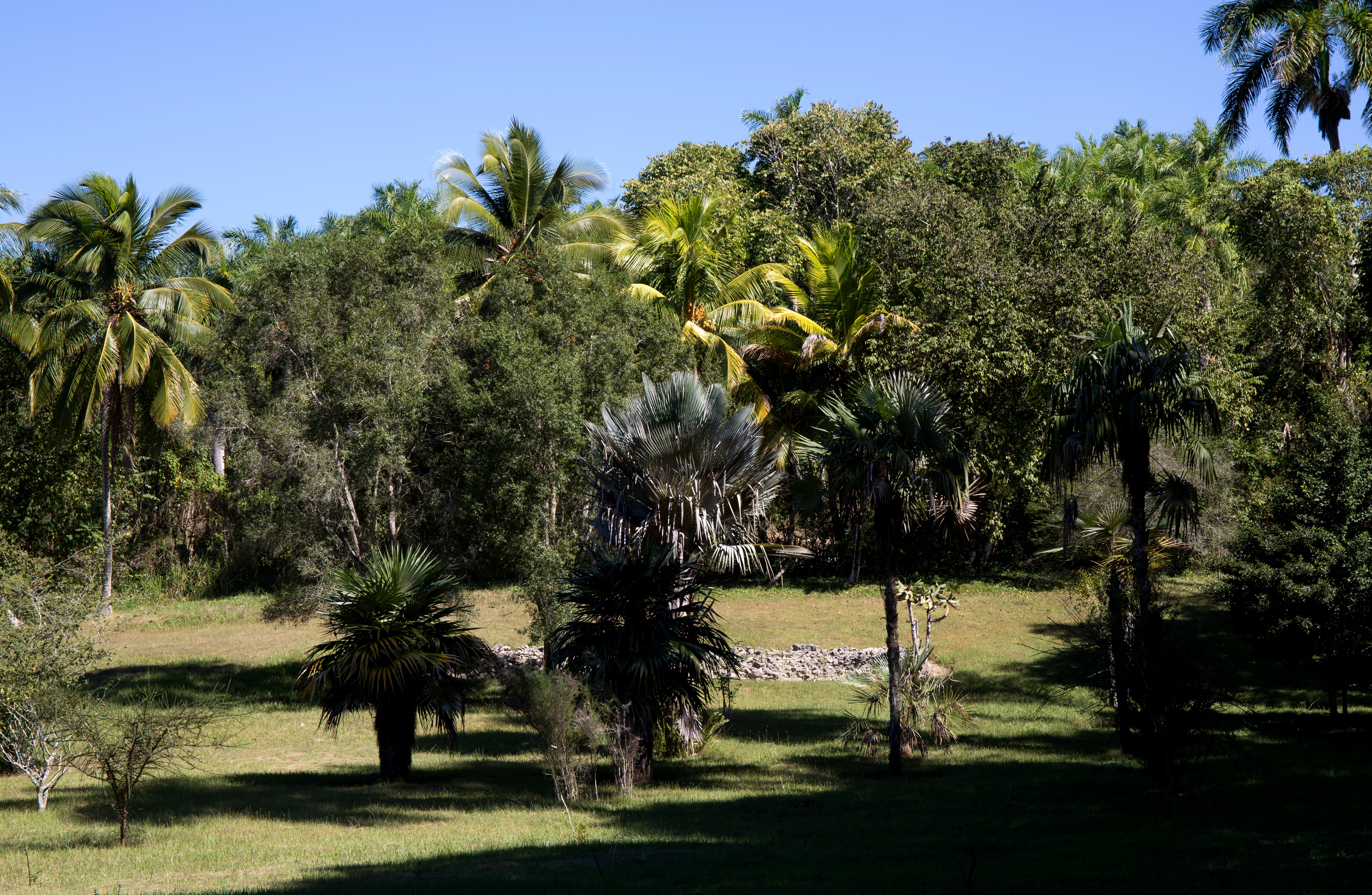 Botanical garden Cupaynicú, province of Granma, Cuba